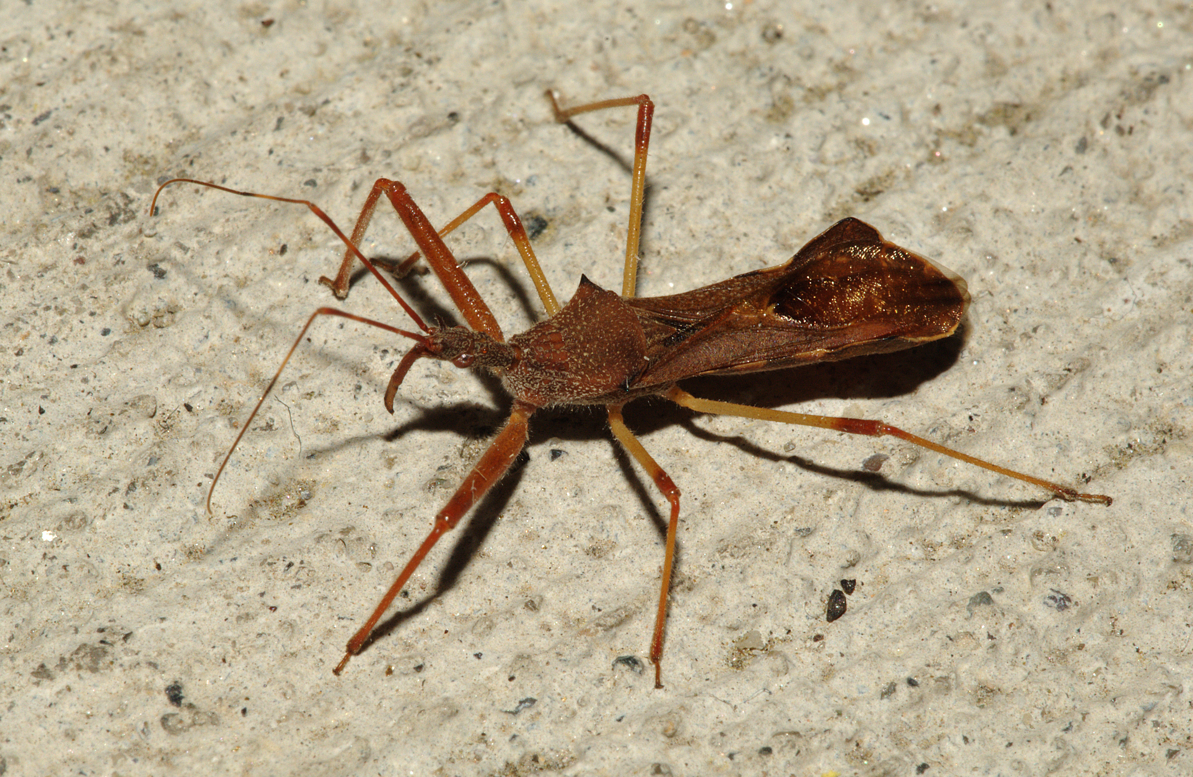 Nagusta goedelii Location: Graz, Austria 8 EX DG APO IF Makro f/16 Film / Speed: ISO 100 Comment: identification: self